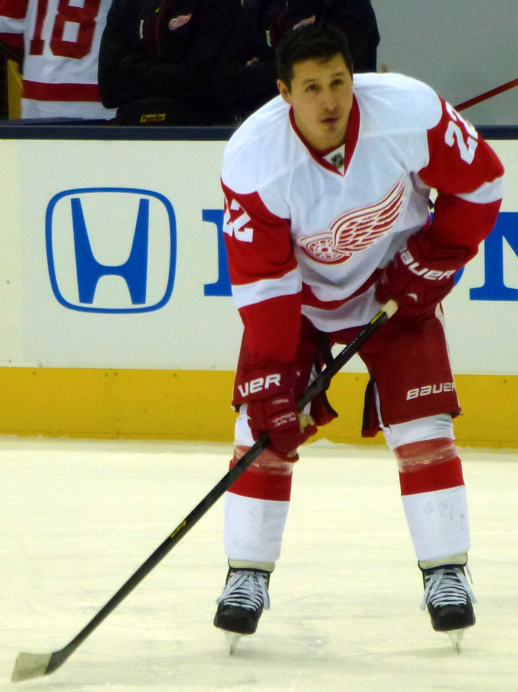 Jordin Tootoo in warmups before a game against the Columbus Blue Jackets at Nationwide Arena